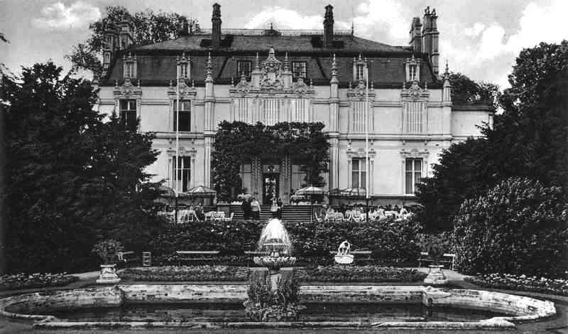 Grüneburgweg, Frankfurt